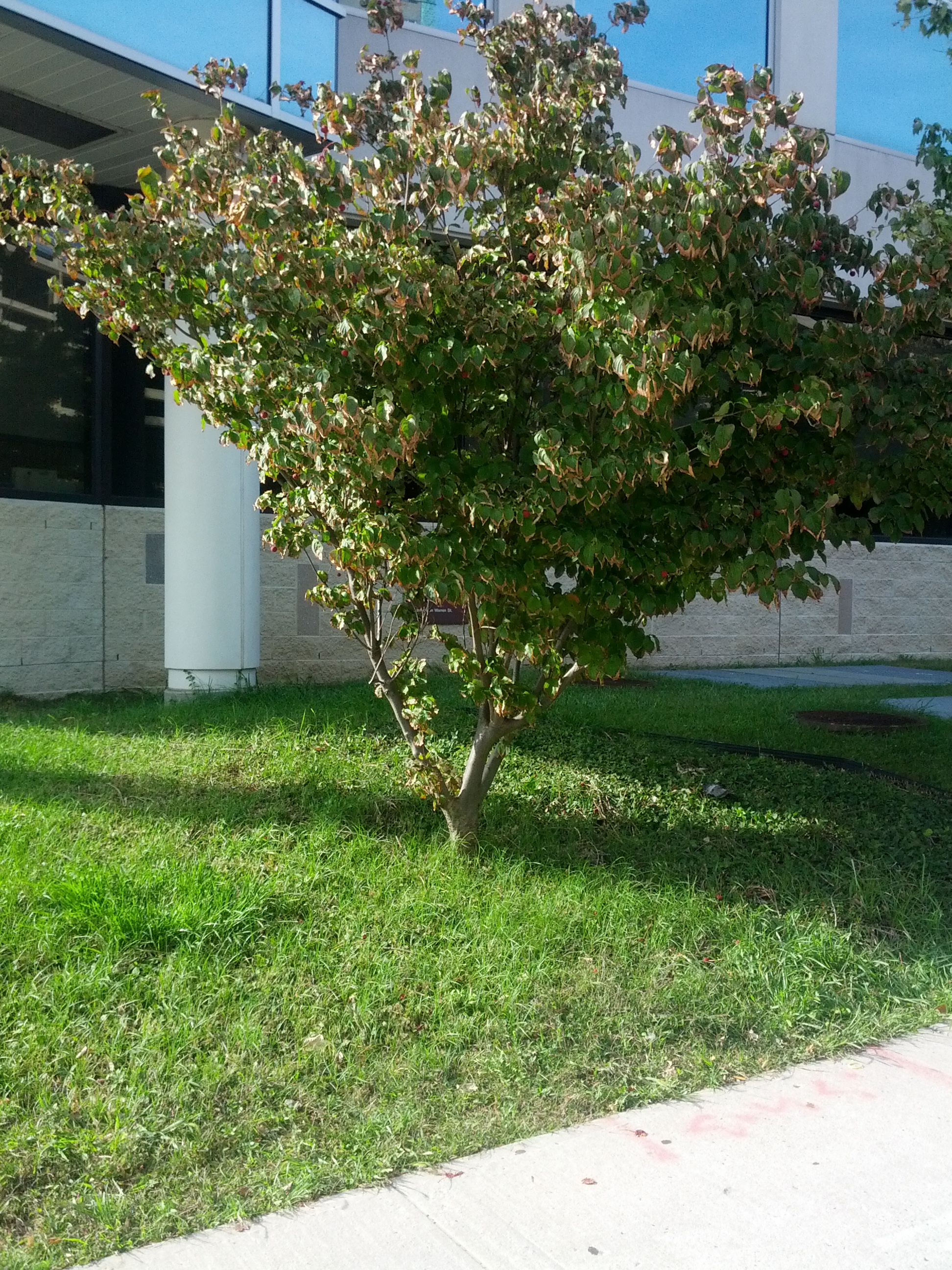 Flowering Dogwood